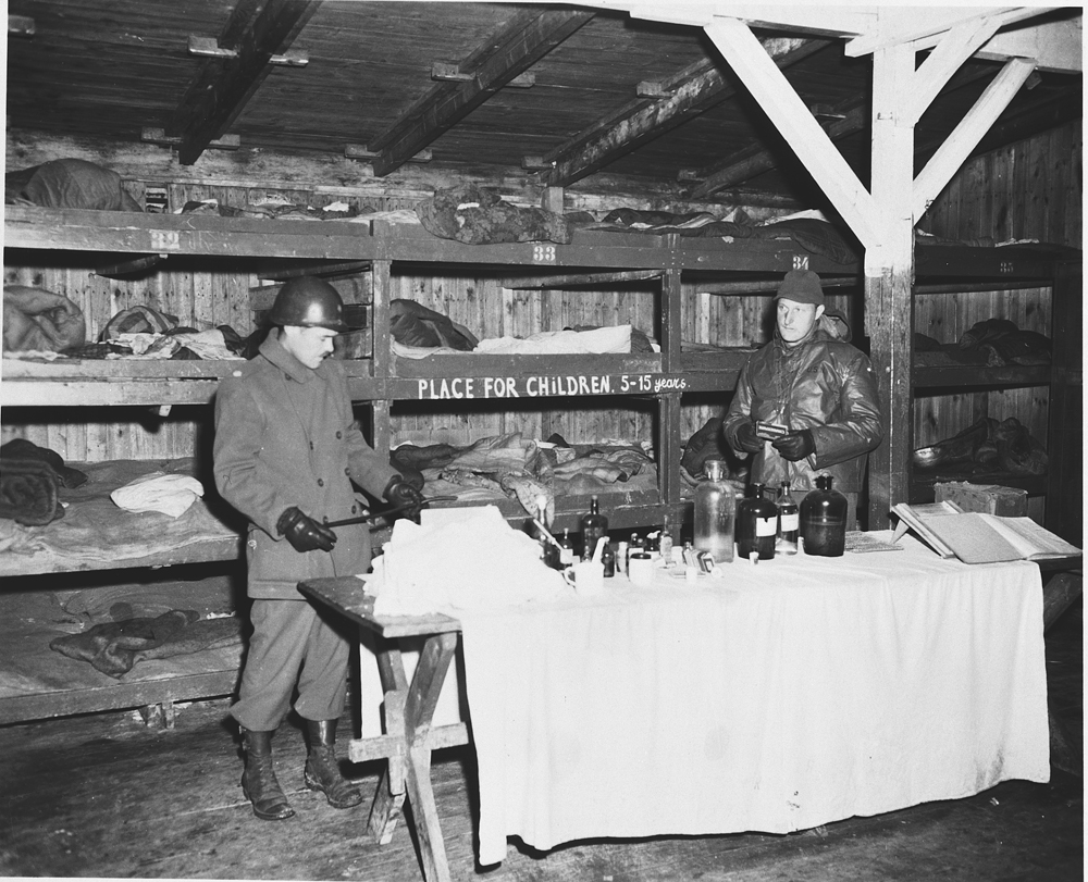 An American soldier looks at items on a display table inside a barracks in the Buchenwald concentration camp. "Place for children 5-15 years" is written on the side of one of the bunks.